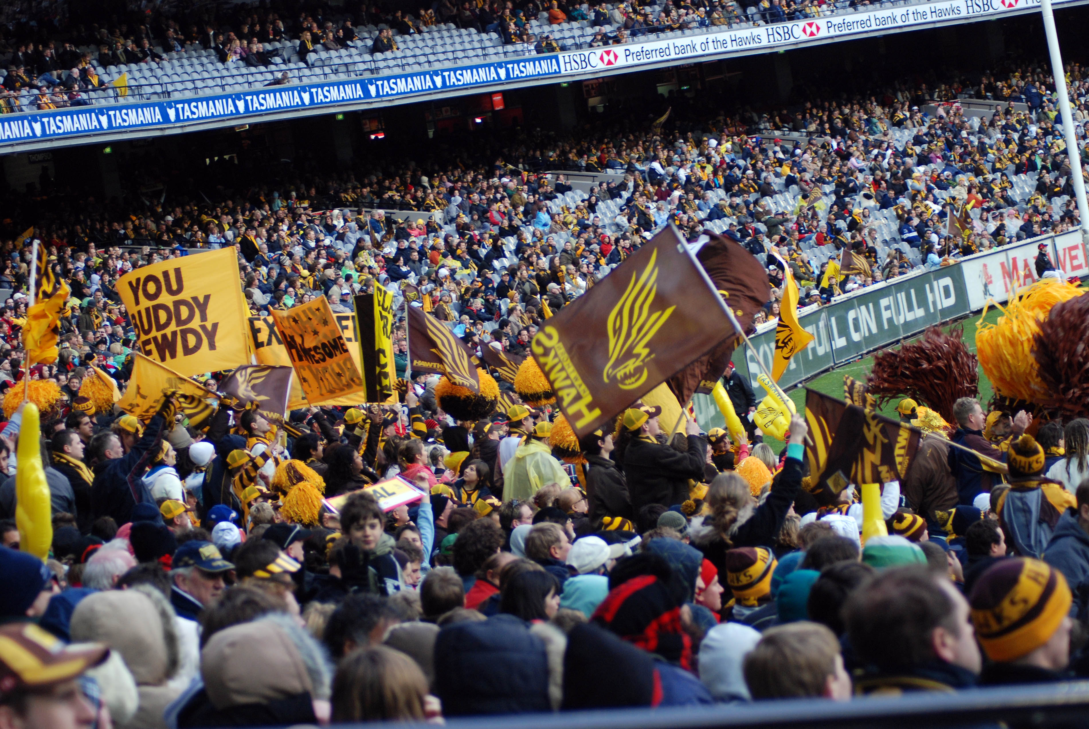 Hawthorn supporters come out in force to cheer their team, the Hawthorn Football Club, on, at the MCG